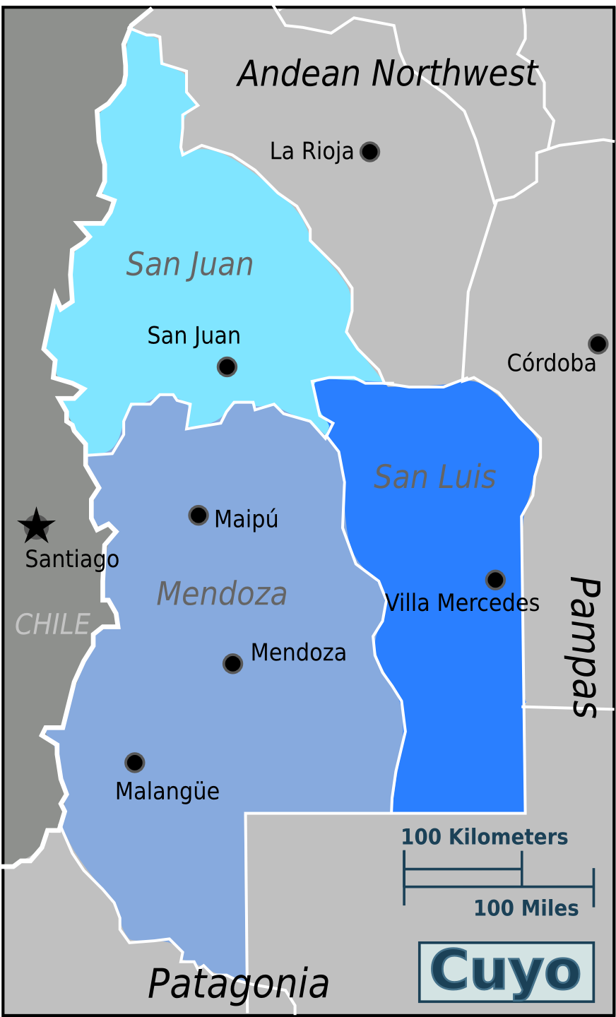 Wikivoyage regions map for Cuyo. Color codes: San Juan 80e5ff Mendoza 87aade San Luis 2a7fff